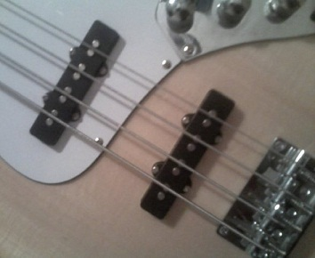 Jazz Bass pickups